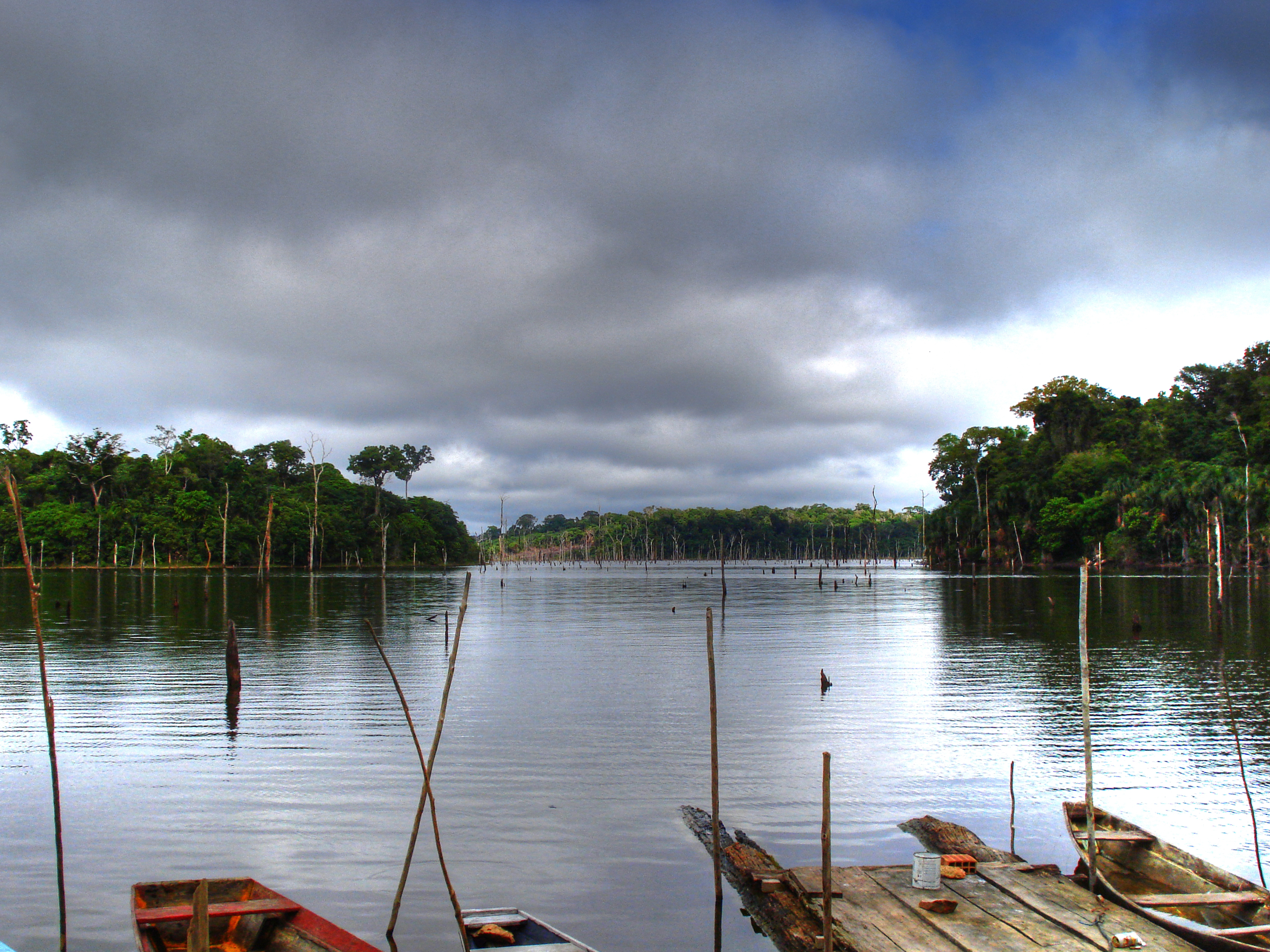 Balbina Dam (Usina Hidreletrica de Balbina), in Amazon, Brazil